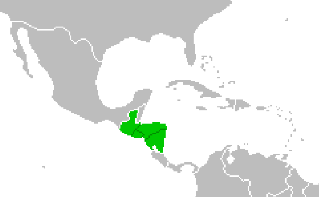 Open border between Central America-4 Border Control Agreement states